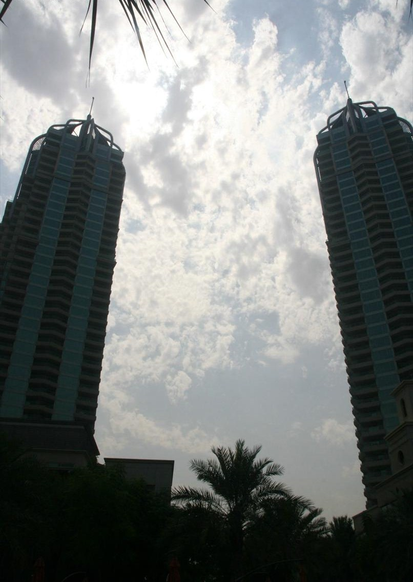 This is a photo showing Mesk Tower and Murjan Tower (two twin buildings that are part of Marina 1, the first project in Dubai Marina that contains 6 towers), located in Dubai Marina in Dubai, United Arab Emirates, on 15 June 2007.